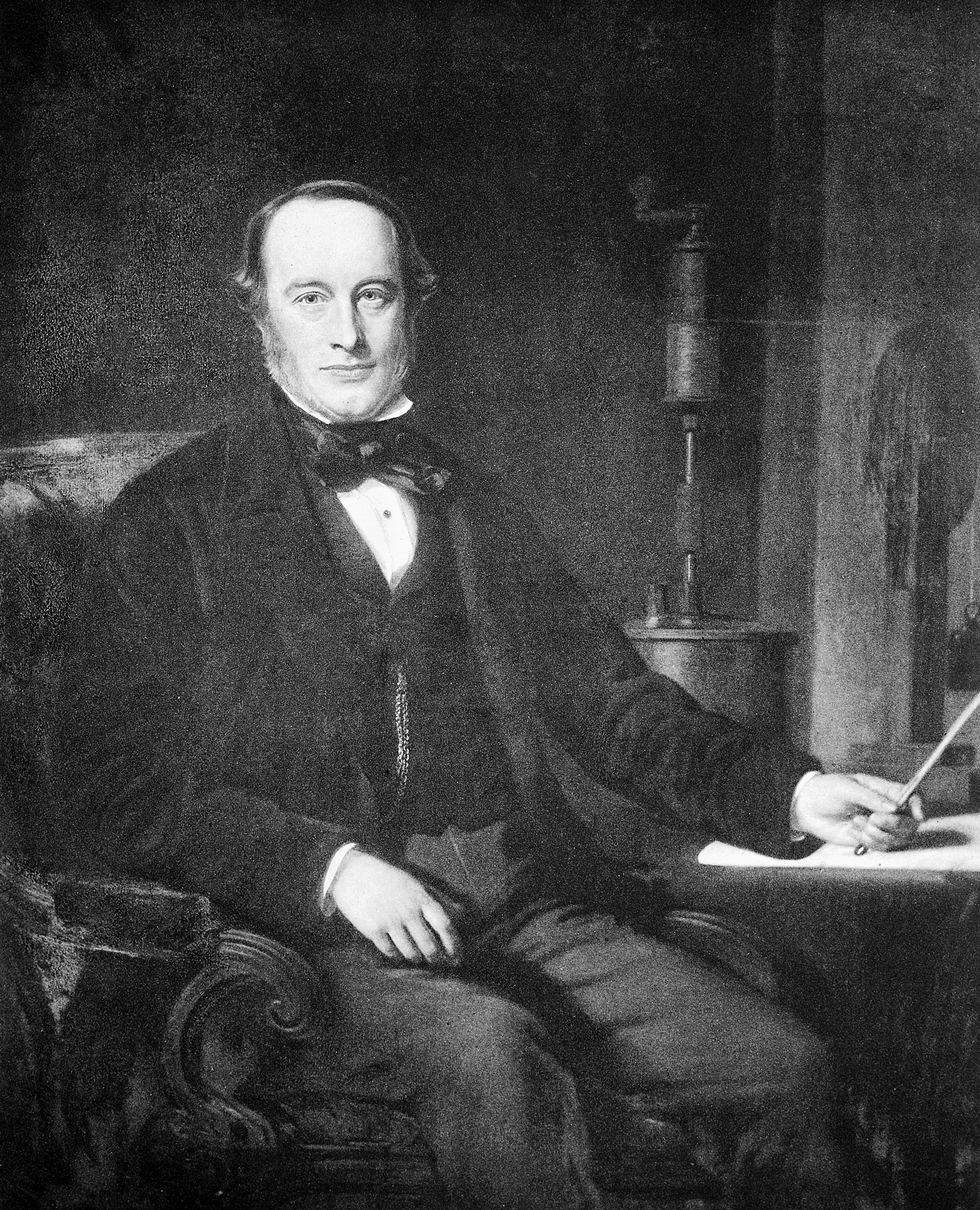 James Prescott Joule. Photogravure after G. Patten. Iconographic Collections Keywords: James Prescott Joule